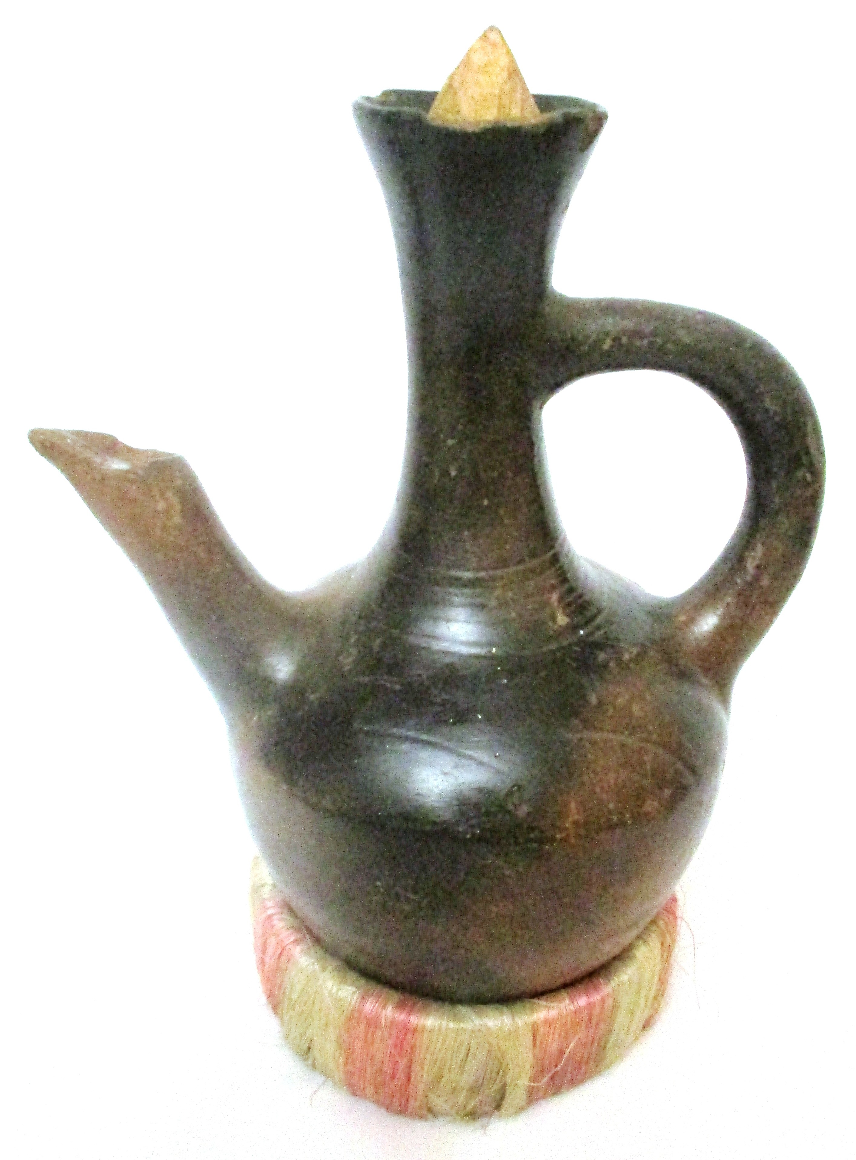 Jebena from Central Ethiopia